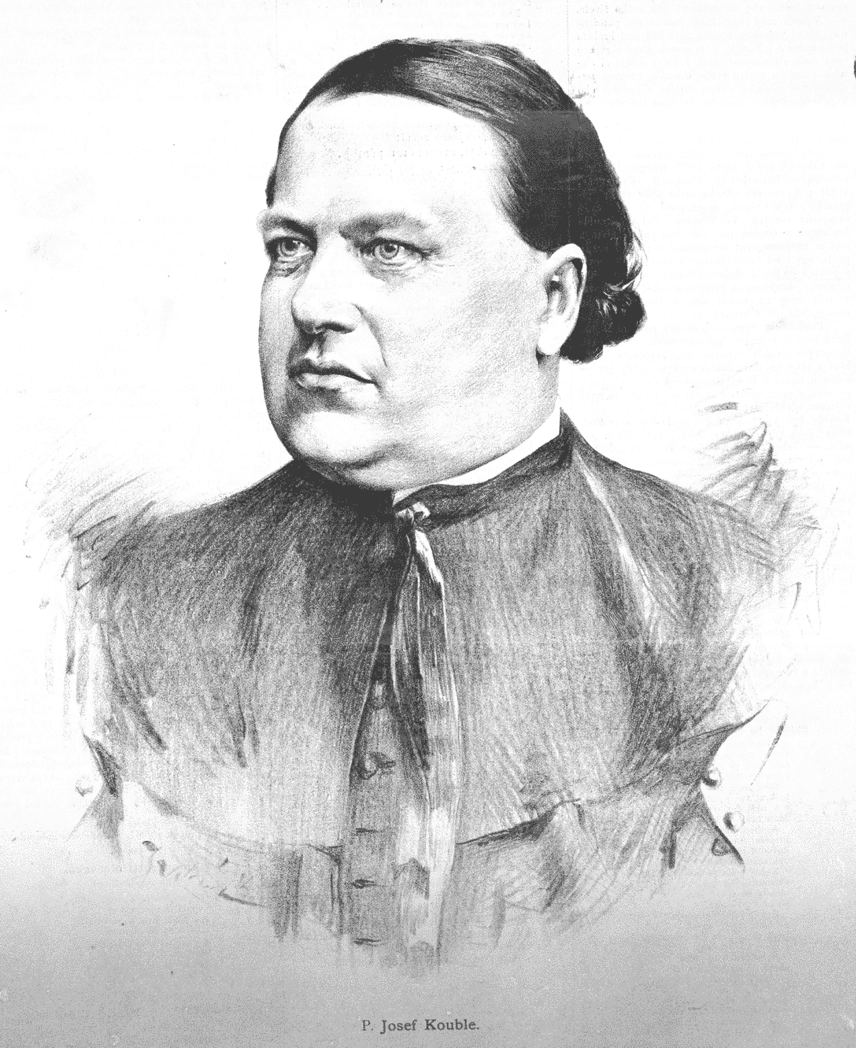 Portrait of Josef Alois Kouble (1825-1886), Czech priest, writer and collector of Czech dialects in the Giant Mountains (Krkonoše).